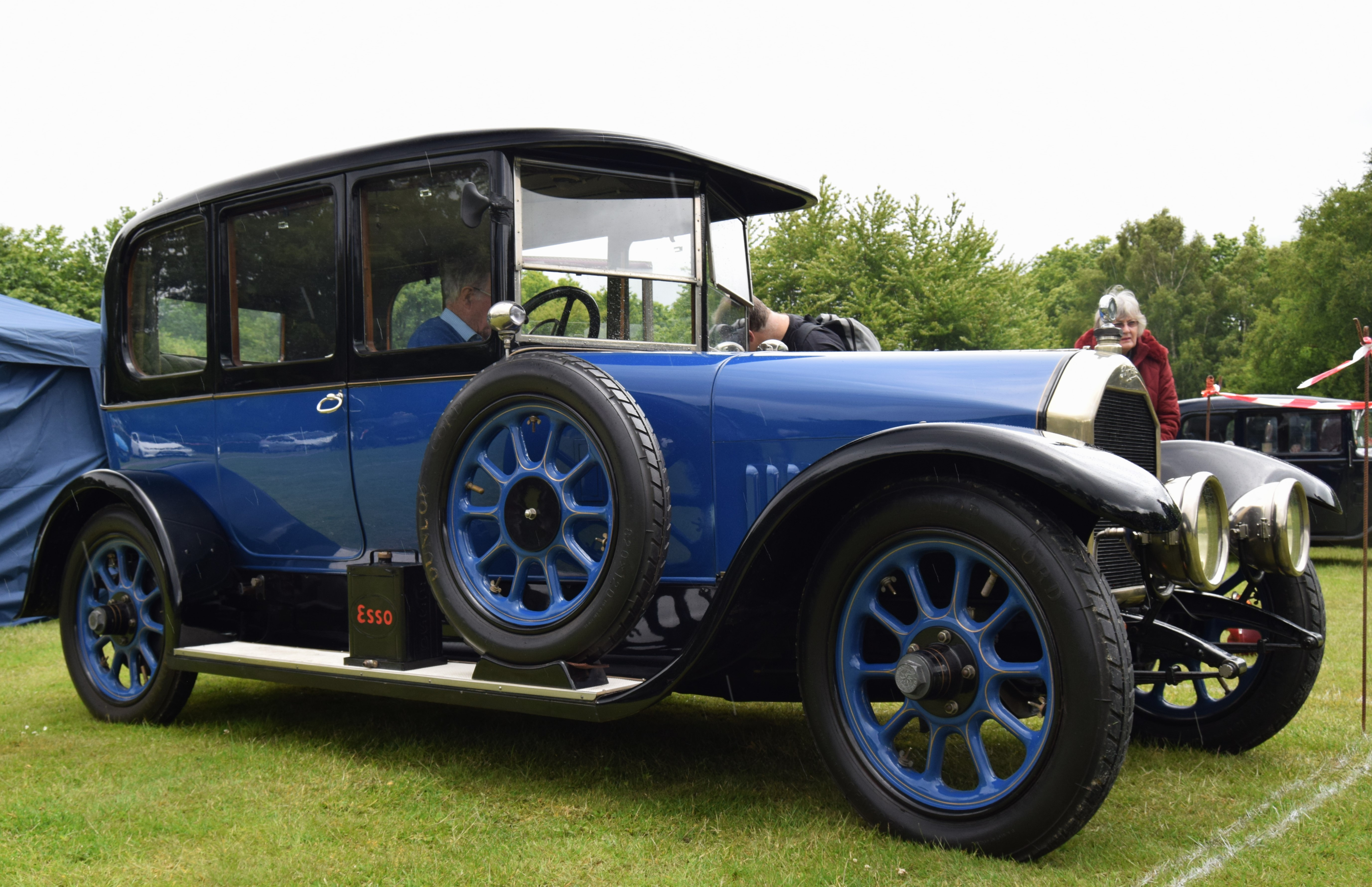 1920 Humber 15.9hp saloonKent. Lamberhurst. Bewl Water. Prewar and classic Transport Rally. "A long-forgotten marque, Humber was once a name to conjure with, as demonstrated by the stunning vintage Saloon now offered. One of few such models remaining, and extraordinarily original, it's apparently travelled just 25,000 miles from new. It retains its original 2815cc engine, four-speed gearbox and leather cone clutch. The front axle is brakeless, as per the period, and the Humber rides on artillery wheels shod with beaded edge tyres. It is finished in finished in 'show quality' Black over Blue, while the ornate Grey interior is trimmed in Bedford cord. The Humber is full of charming touches - entry is via the rear compartment, the front seats swivelling to allow forward access, and the interior boasts hat racks, ornate period door pulls and masses of brocade trimming. Both male and female requisite sets are present and complete. Being sold with a large quantity of spares, 'CE 7392' makes a fine alternative to a 20hp Rolls-Royce."